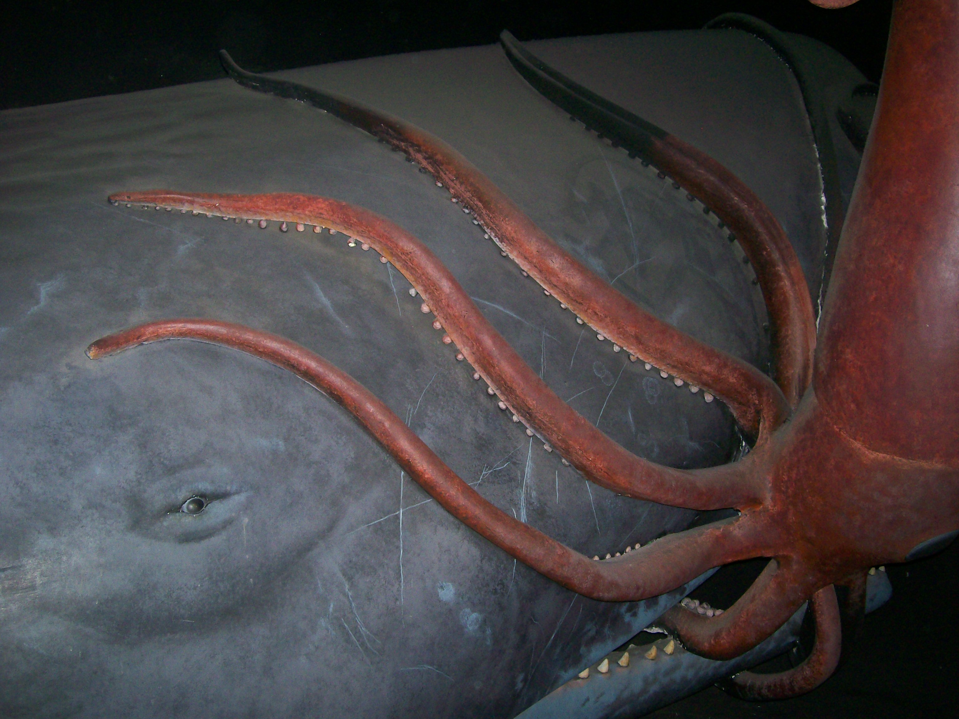 A picture of a Sperm Whale (Physeter macrocephalus) wrestling its prey, a Giant Squid (Architeuthis dux), at the American Museum of Natural History.